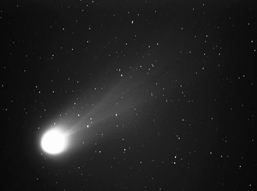 Comet Hyakutake. The photographer used a Super Polaris mount, without guiding corrections. Because of that, the stars are point-like, but the comet (which moved during the exposure) shows no detail. The photo was taken using the following equipement: Lens: Nikon 300mm f/2,8 Film: Kodak Technical Pan Exposure: 15 min at f/2,8. Processing: Film was developed in a print developer, which resulted in very hight contrast. The hight contrast is good for the comet, but it enhances the vignetting very much.